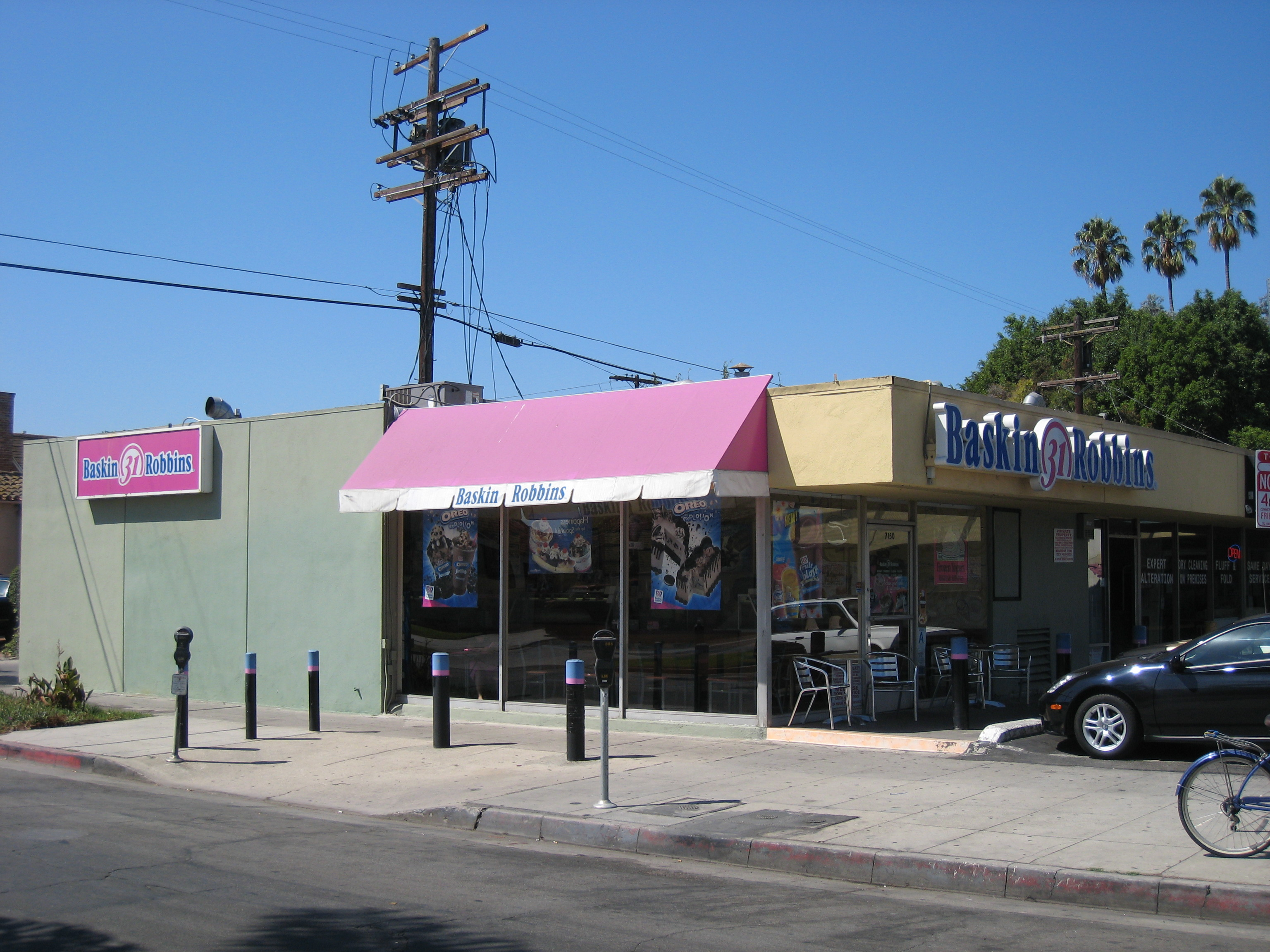 Baskin-Robbins ice cream restaurant on Melrose in Los Angeles, California